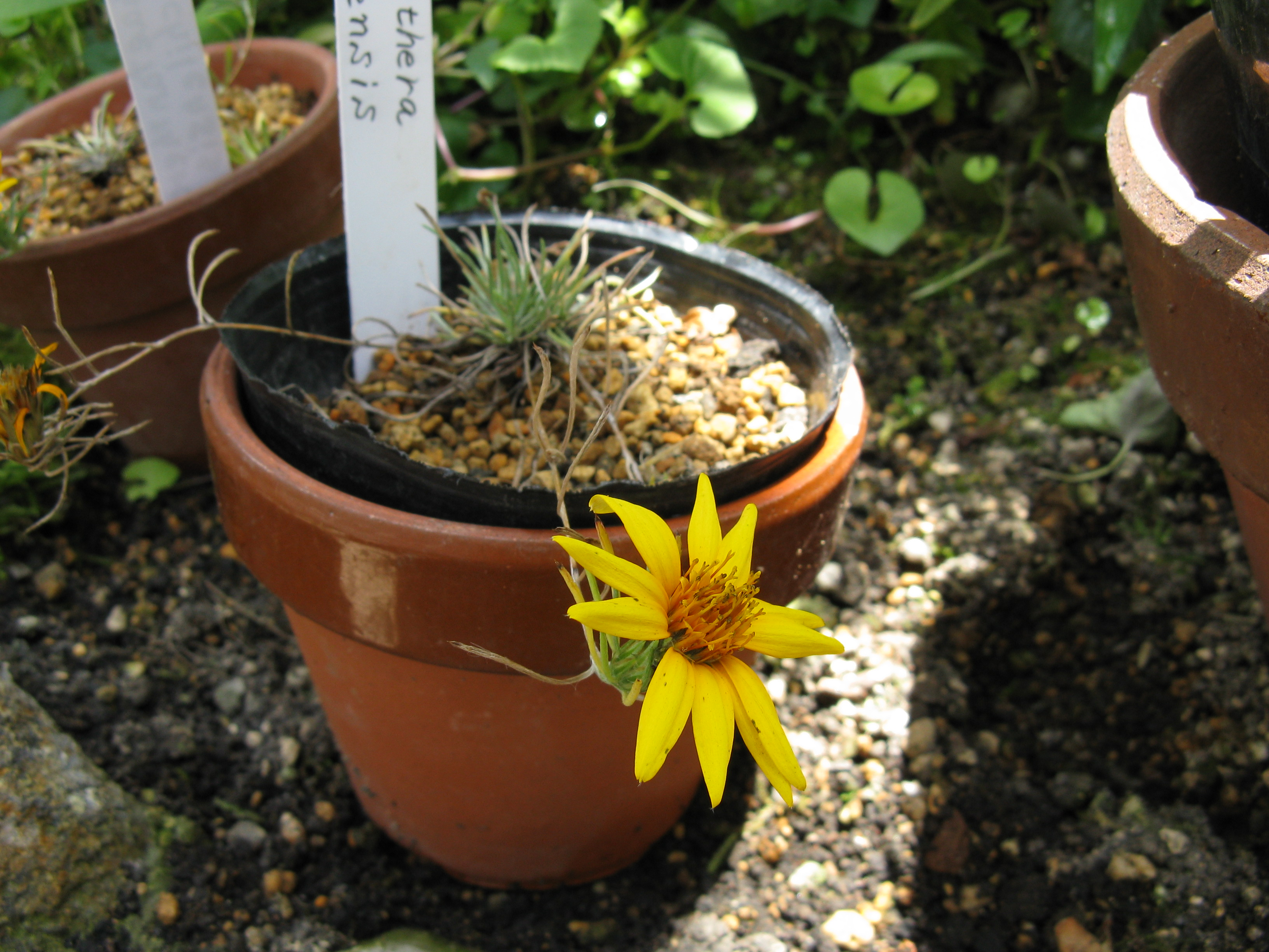 Chaetanthera chilensis Place:Osaka Prefectural Flower Garden,Osaka,Japan